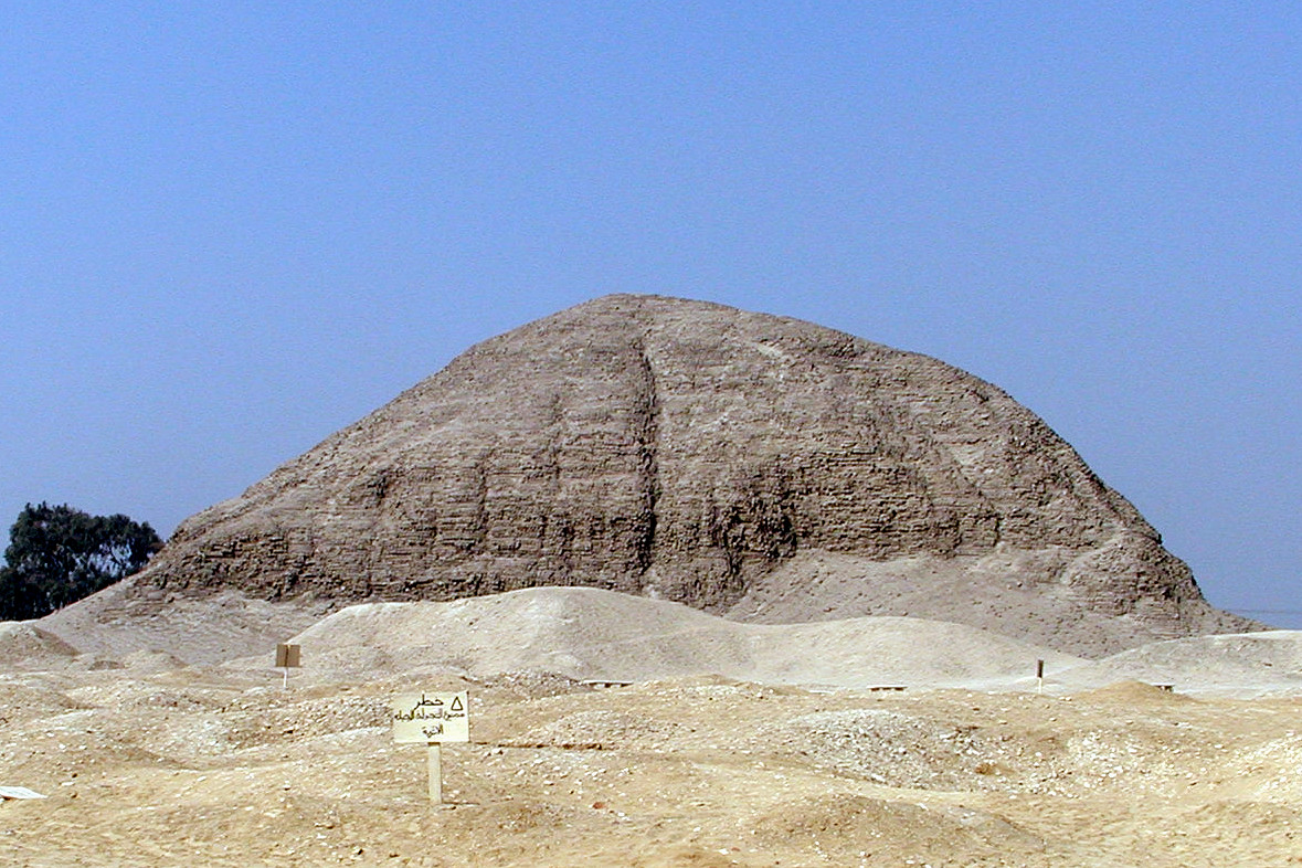 Hawara Pyramid of Amenemhat III. Fayum.